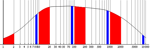 A broad probability distribution on a log scale, with bars colored in to show why Benford's law holds